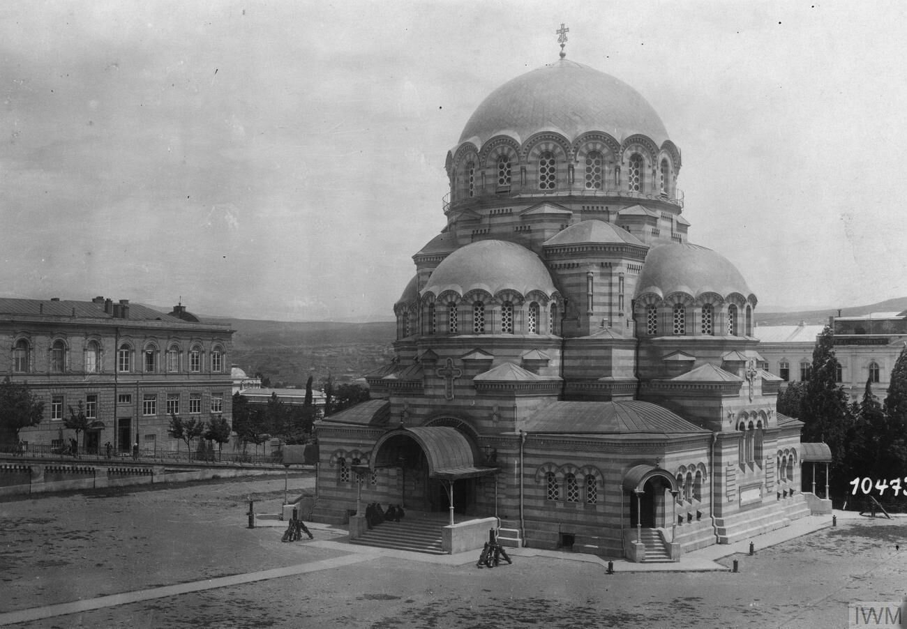 A "Russian" cathedral in Tiflis, the capital of Georgia. Part of the IWM's GERMAN FIRST WORLD WAR OFFICIAL EXCHANGE COLLECTION.